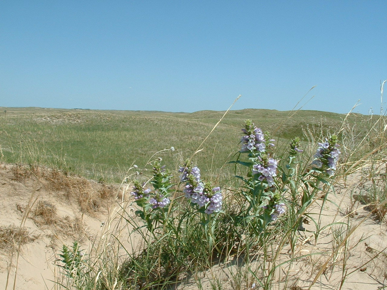 Blowout penstemon (Penstemon haydenii) is a species of beardtongue and is a warm-season short-lived perennial plant. Blowout penstemon requires moving sand in blowouts or sand ridges (in Wyoming) to thrive. The common name of the blowout penstemon comes from the blowouts in the Sandhills of Nebraska. Blowouts are round or conical eroded areas, depressions formed in the sand when prevailing northwesterly winds scoop out the sides of the hills. These eroded areas form on the sides of dunes when vegetative cover is removed or disturbed and wind action further exposes the slopes. The blowout pensemon is listed as endangered. Credit: Melvin Nenneman, USFWS